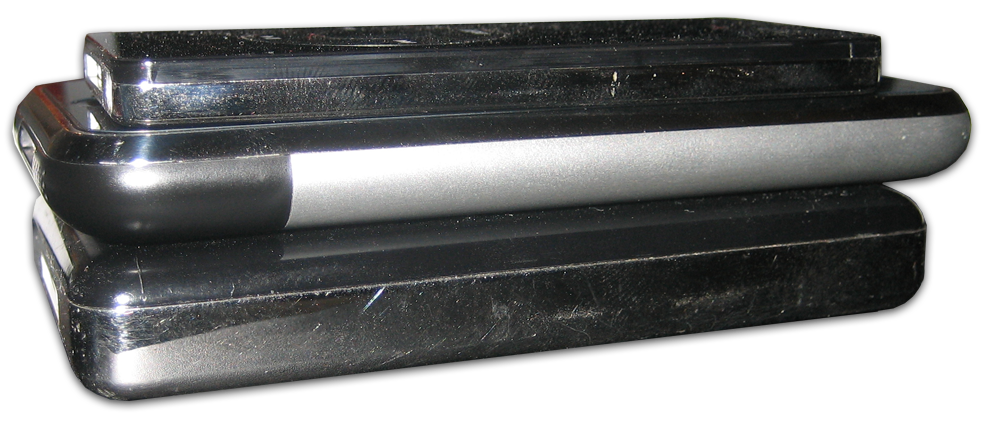 Size comparison of iPod nano (first generation), iPhone (first generation), and iPod (clickwheel)(4G). Items are listed from top to bottom.